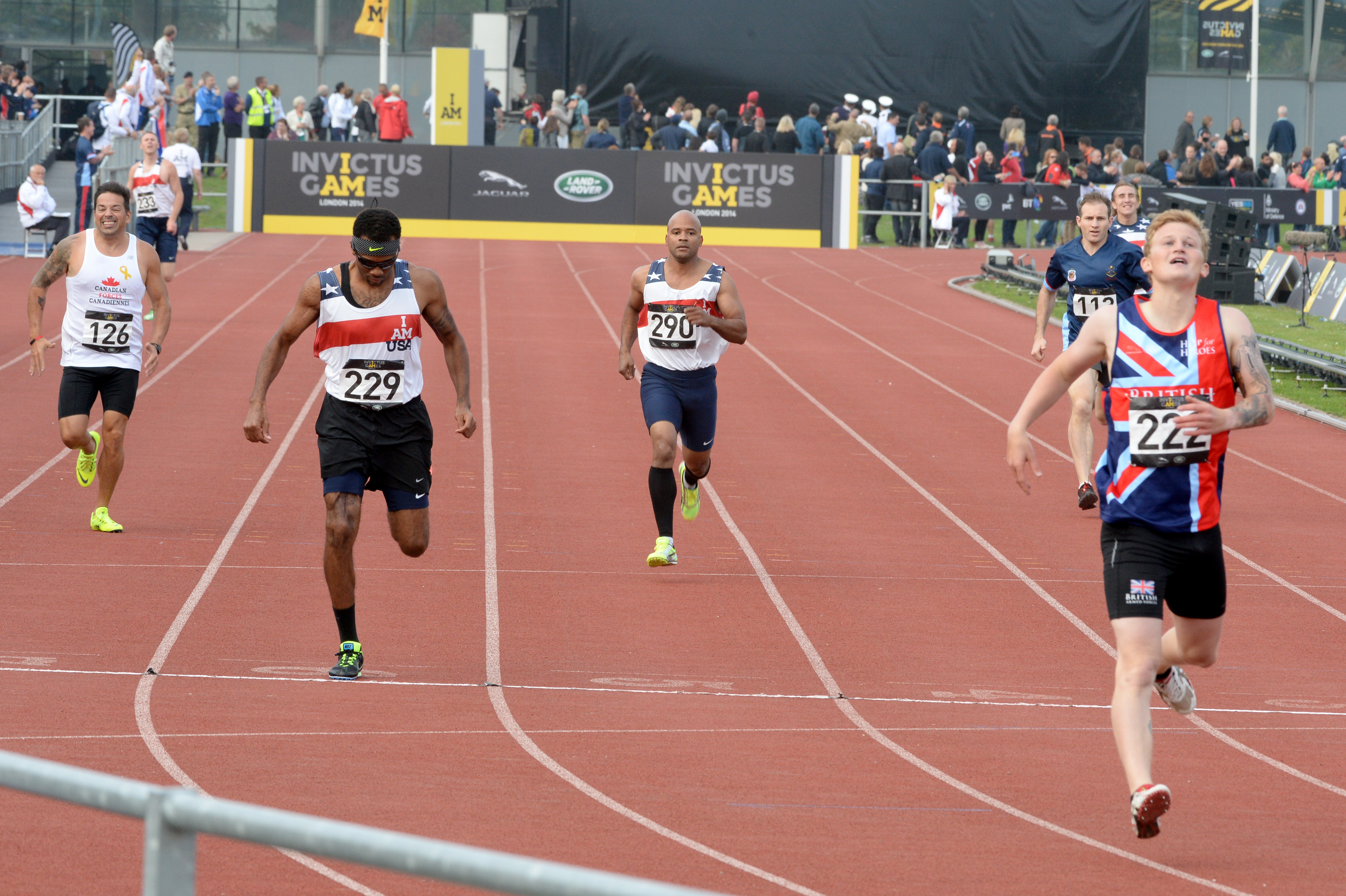 Active duty Navy Hospital Corpsman 3rd Class Angelo Anderson crosses the finish line to claim the bronze medal in a 400-meter men's race during the track and field portion of the 2014 Invictus Games. The international competition brings together wounded, injured and ill service members in the spirit of friendly athletic competition. American Soldiers, Sailors, Airmen and Marines are representing the United States in the competition which is being held in London, England, Sept. 10-14, 2014. (U.S. Navy photo by Mass Communication Specialist 2nd Class Joshua D. Sheppard/Released)